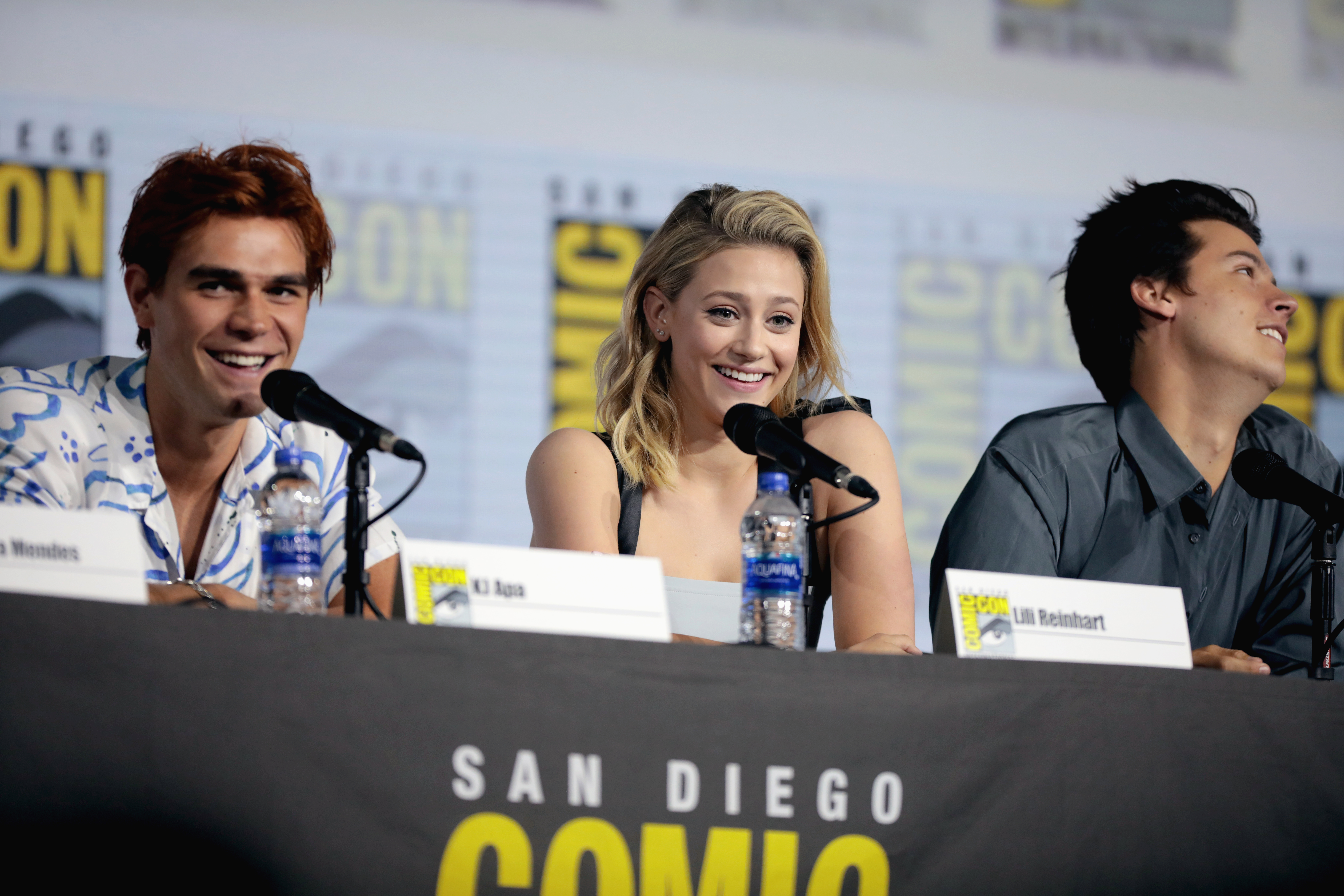 KJ Apa, Lili Reinhart and Cole Sprouse speaking at the 2019 San Diego Comic Con International, for "Riverdale", at the San Diego Convention Center in San Diego, California.